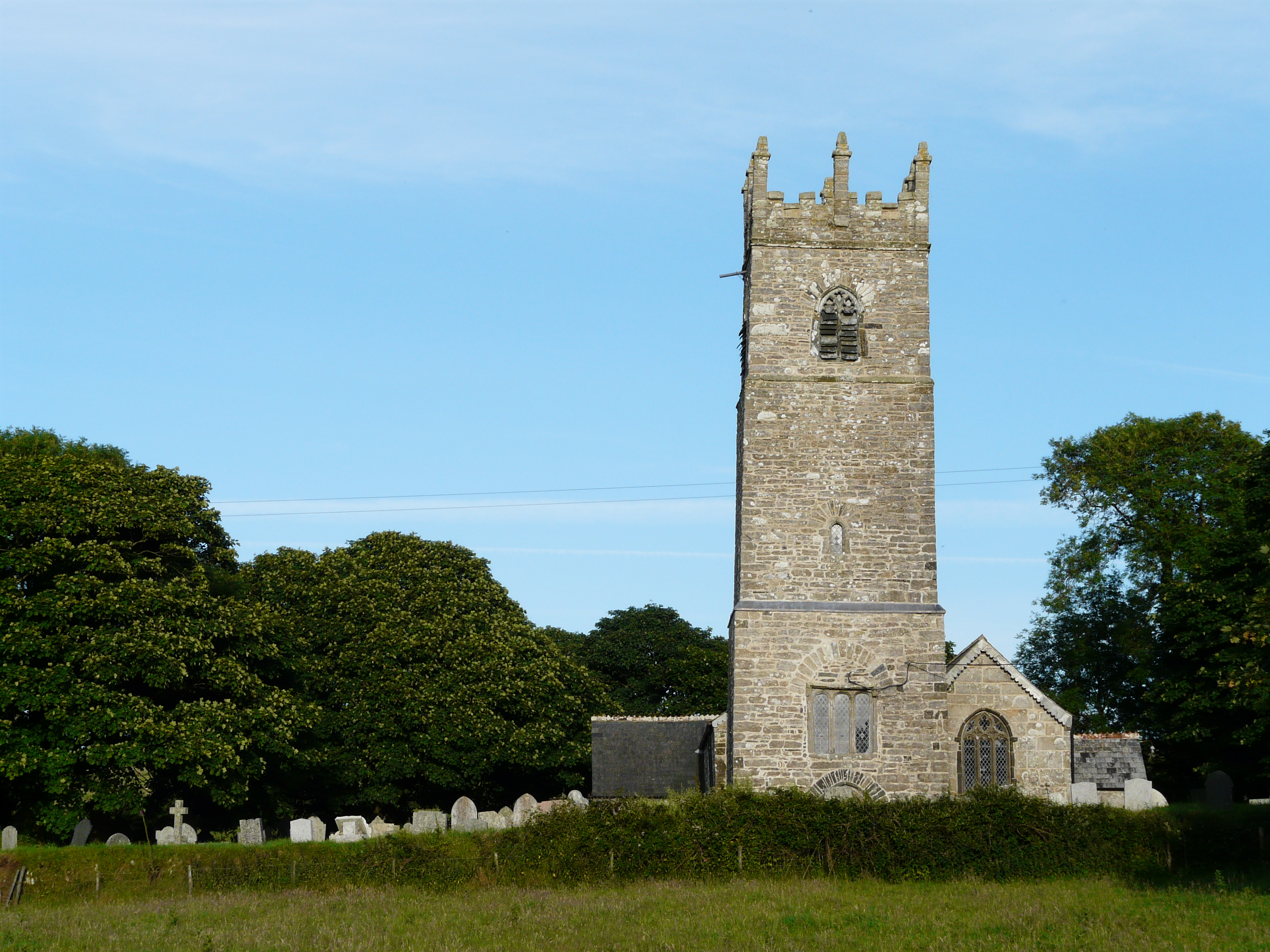 Advent church